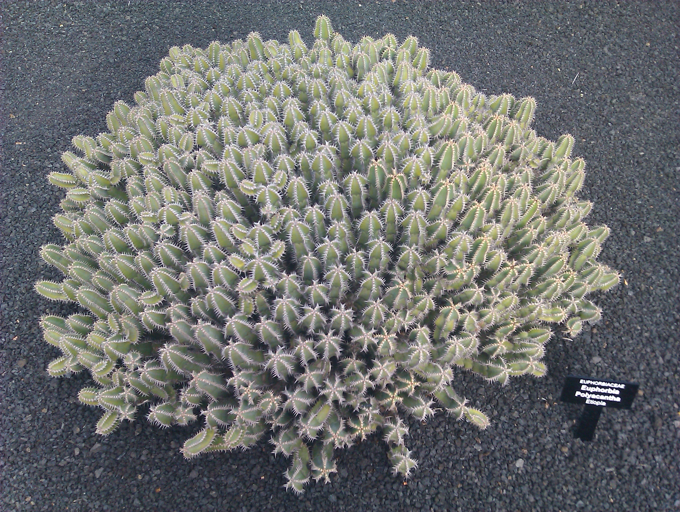 Photo taken at Jardín de Cactus, Lanzarote, Spain. Euphorbia polyacantha.